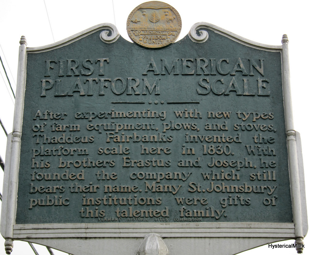 After experimenting with new types of farm equipment, plows, and stoves, Thaddeus Fairbanks invented the platform scale here in 1830. With his brothers Erastus and Joseph, he founded the company which still bears their name. Many St. Johnsbury public institutions were gifts of this talented family. Vermont Historic Sites Commission